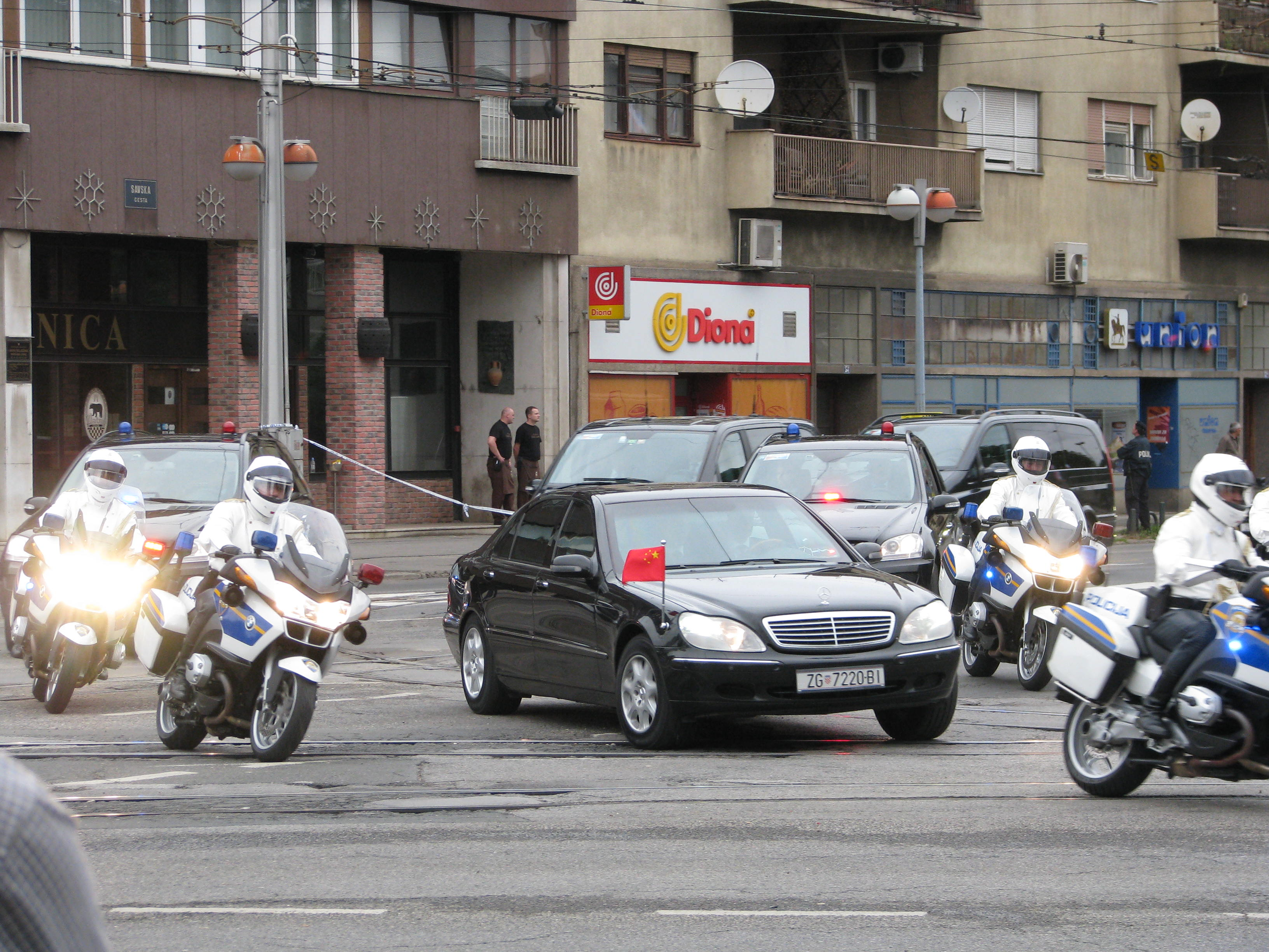 Chinese President's motorcade during the state visit to Croatia, Zagreb, 19 - 20 May 2009